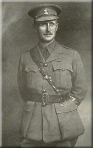 Portrait of Col. P. C. Evans-Freke of the Leics Yeo, taken 1913-1914.